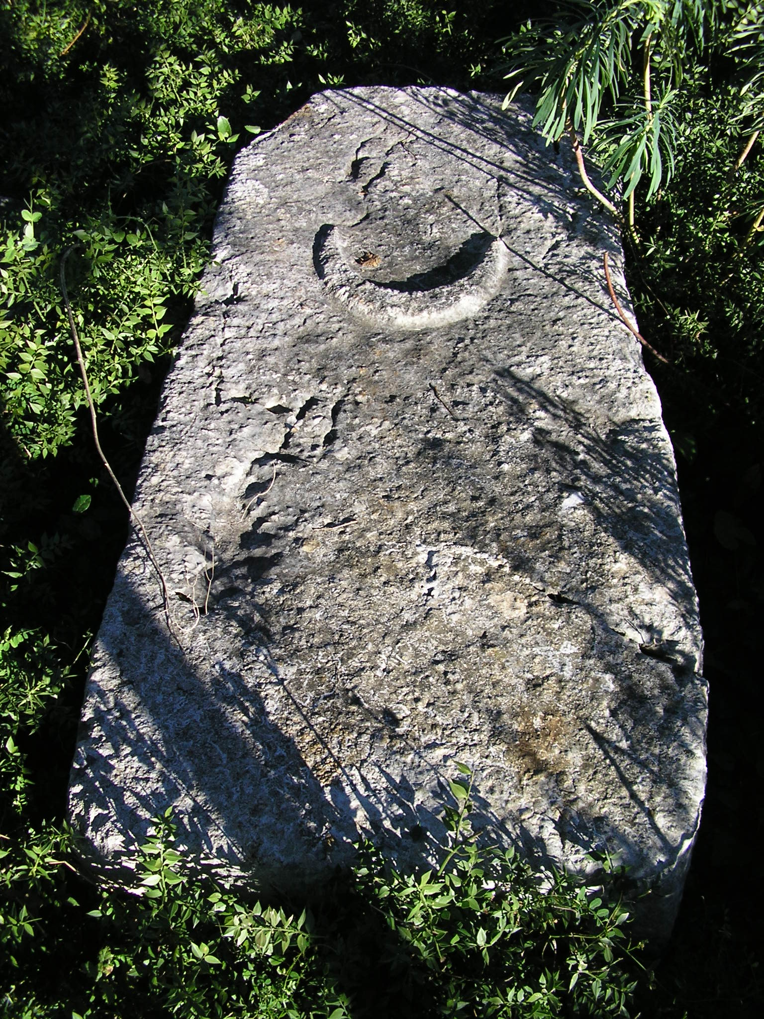 Stećci in Vranjevo Selo